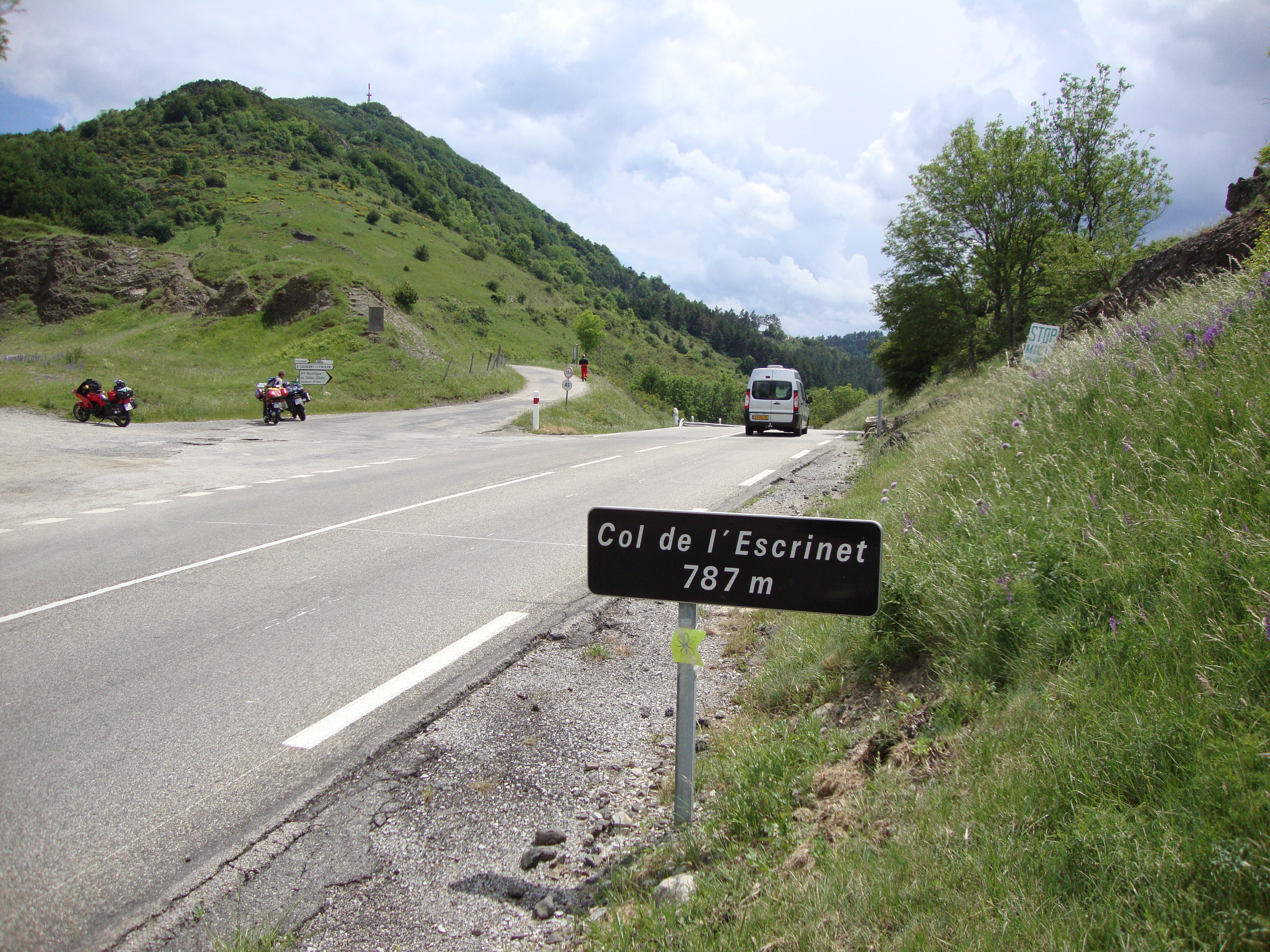 Col de l'Escrinet (Ardèche, Fr)